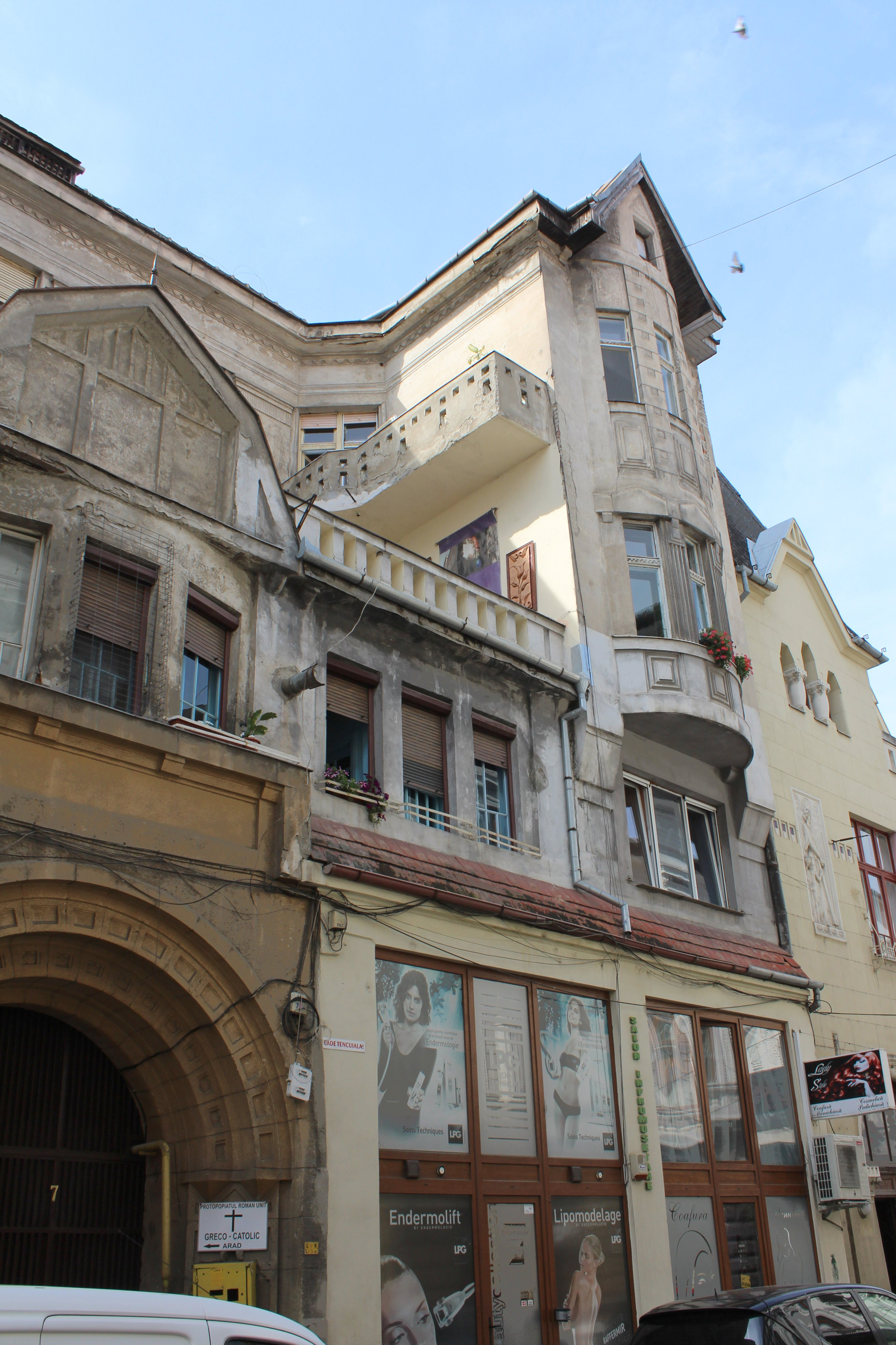 The parish house of the United Romanian Church, Arad, Romania, built 1907.